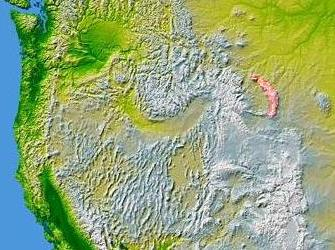 The Bighorn Mountains are shown highlighted in red in the western United States Original image courtesy of NASA